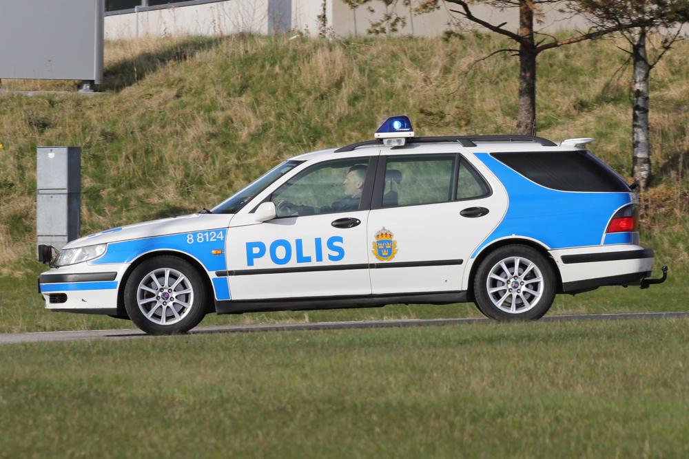 Swedish police SAAB 9-5 88124 near Gothenburg - Landvetter Airport, Sweden